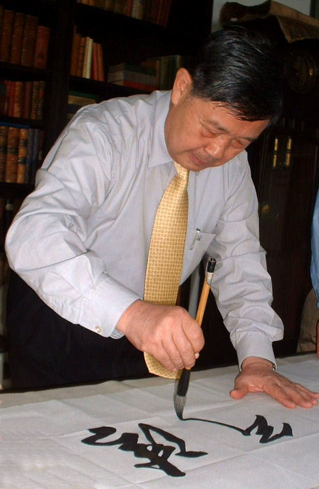 calligraphy of the Chinese calligrapher Sun Xinde